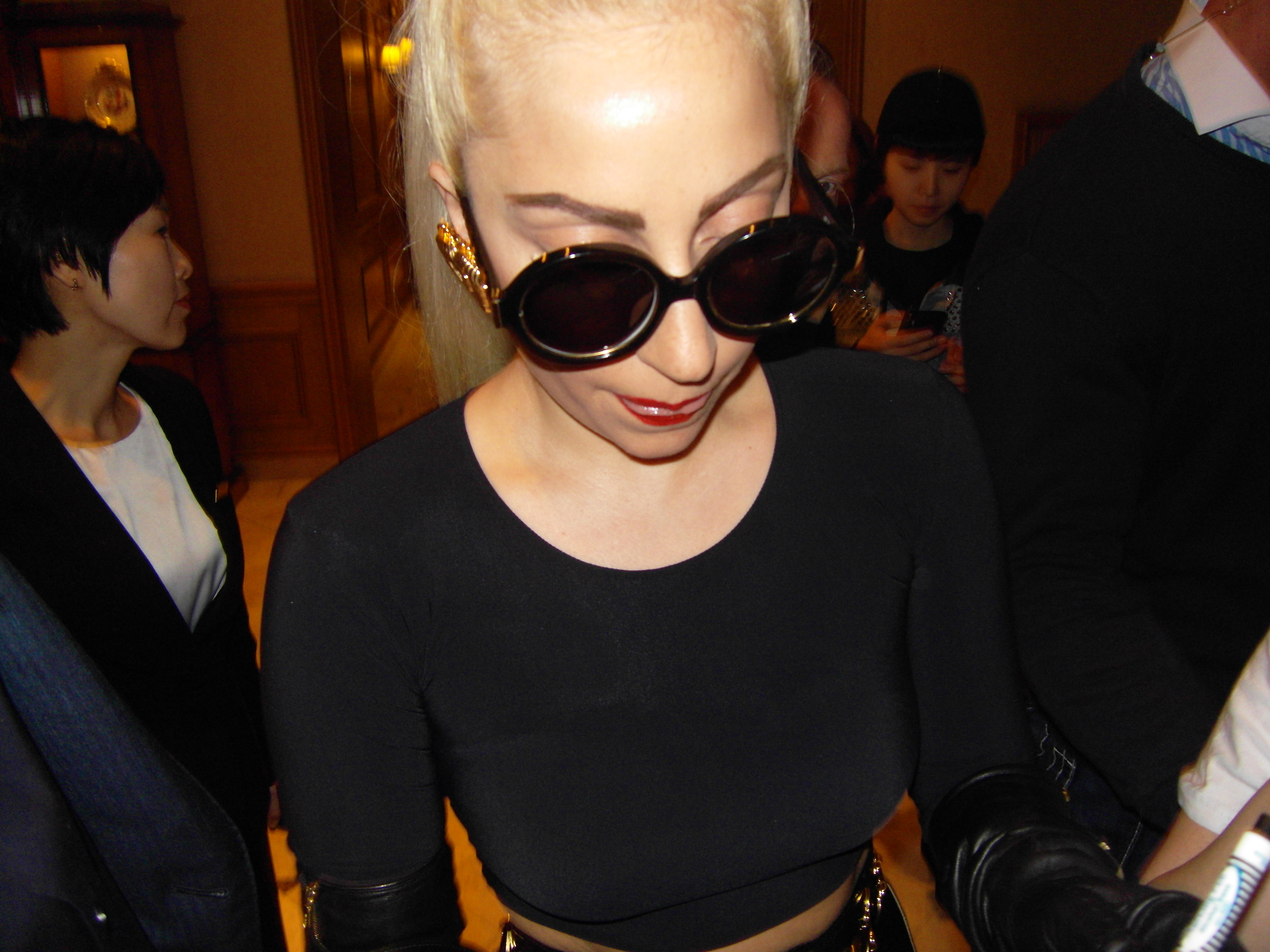 Lady Gaga in the lobby of The Ritz Carlton Seoul meeting fans.